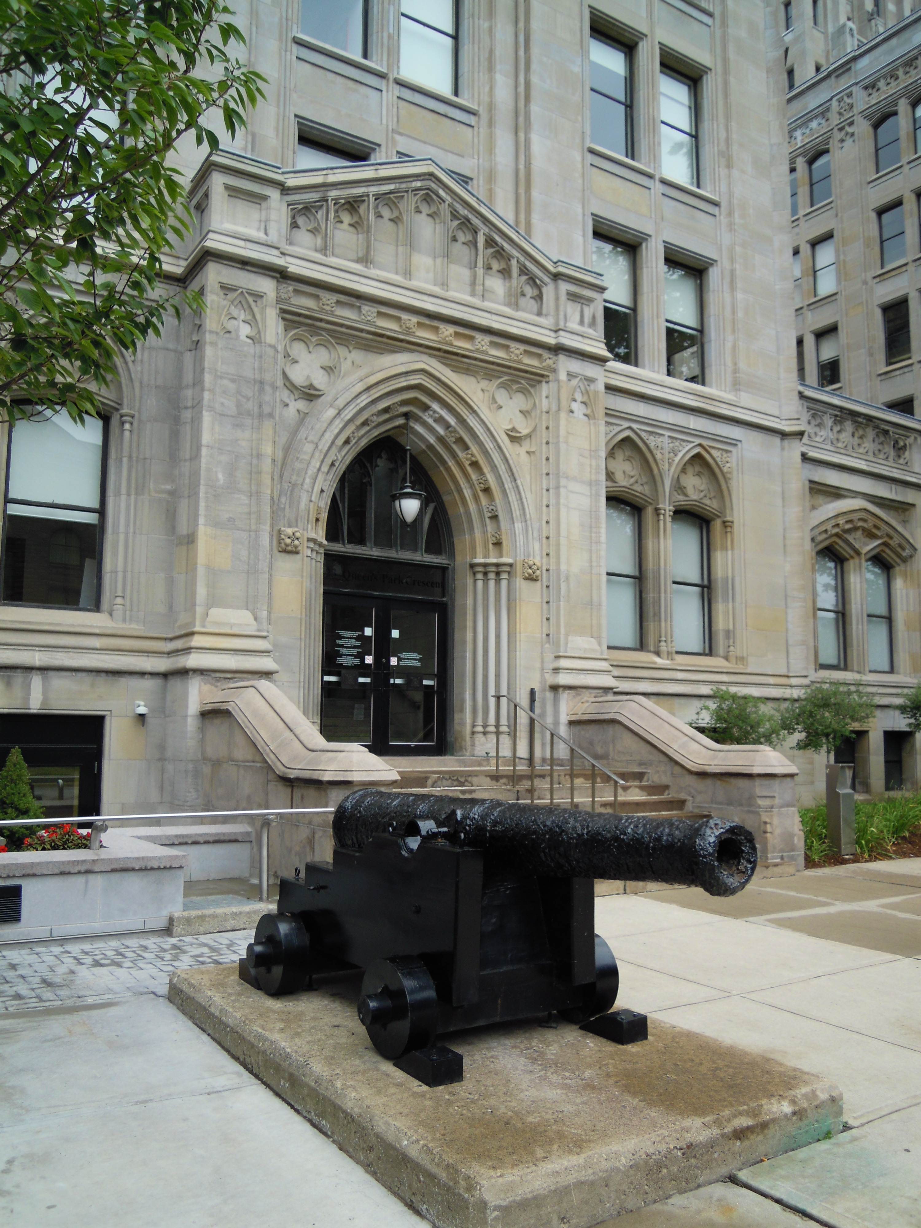 One of two cannons flanking the entrance to the Whitney Block on Queen's Park Circle in Toronto, Ontario, Canada. The cannons were on the French naval ship Prudent, captured and burned by the British in June 1758 during the siege of Louisbourg. Twenty cannons, from Prudent and other French ships sunk during the siege, were raised in 1899, two of which were acquired by the Government of Ontario.